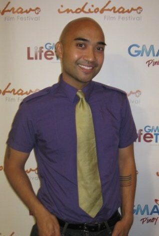 Nadal in New York in 2009